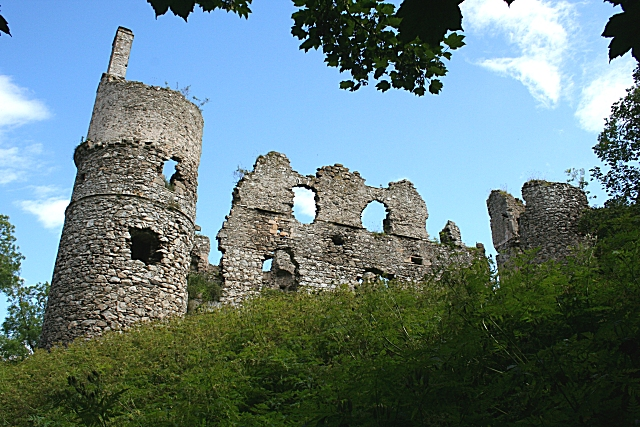 Boyne Castle This is the west front of the Great Hall.